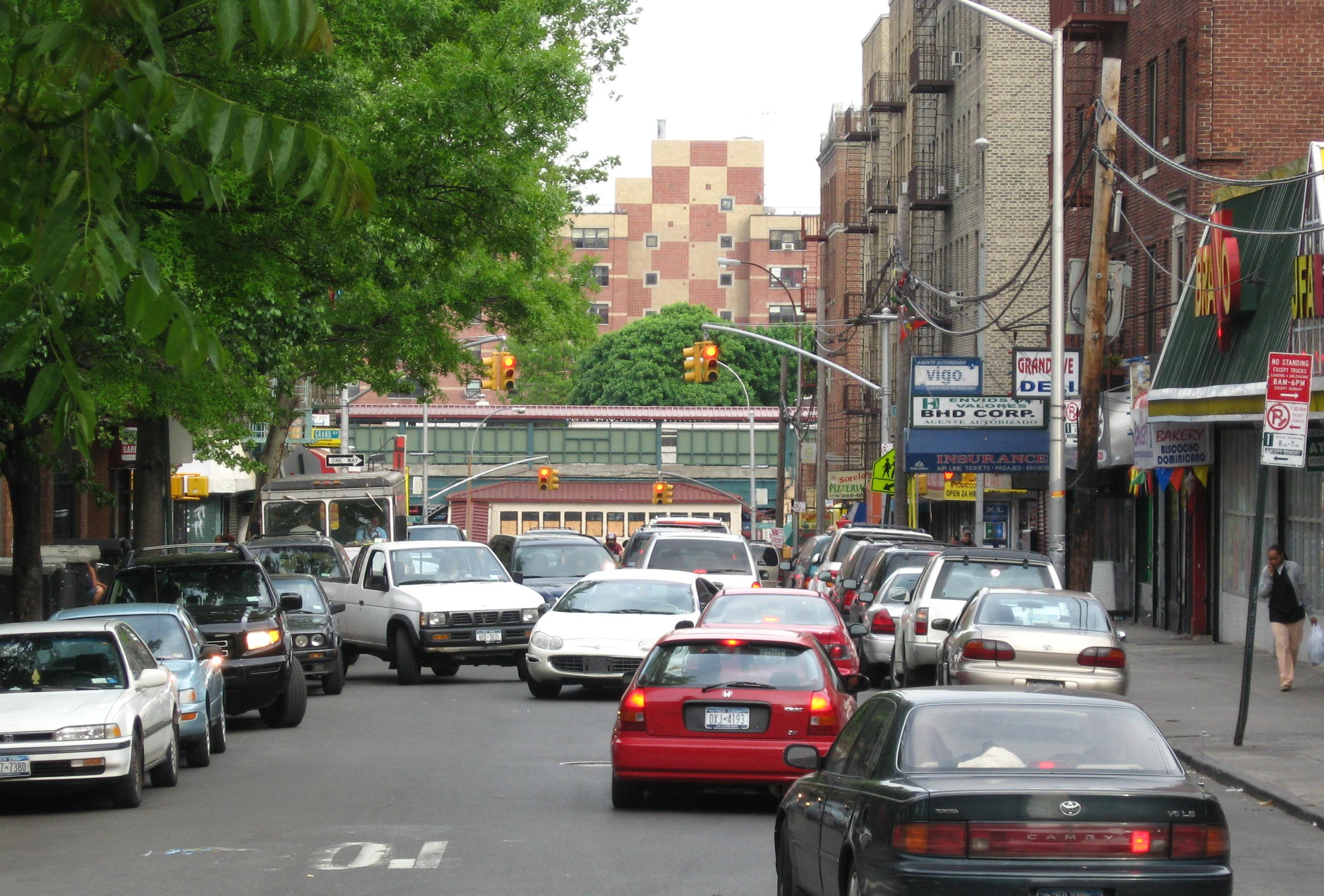 Looking east on 183d to en:183rd Street (IRT Jerome Avenue Line) from Croton Aqueduct three blocks away, on a cloudy afternoon.